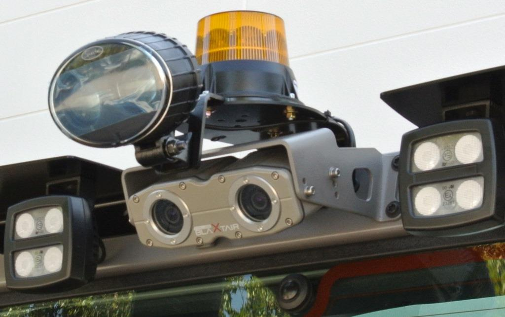 A Blaxtair Pedestrian Detection System